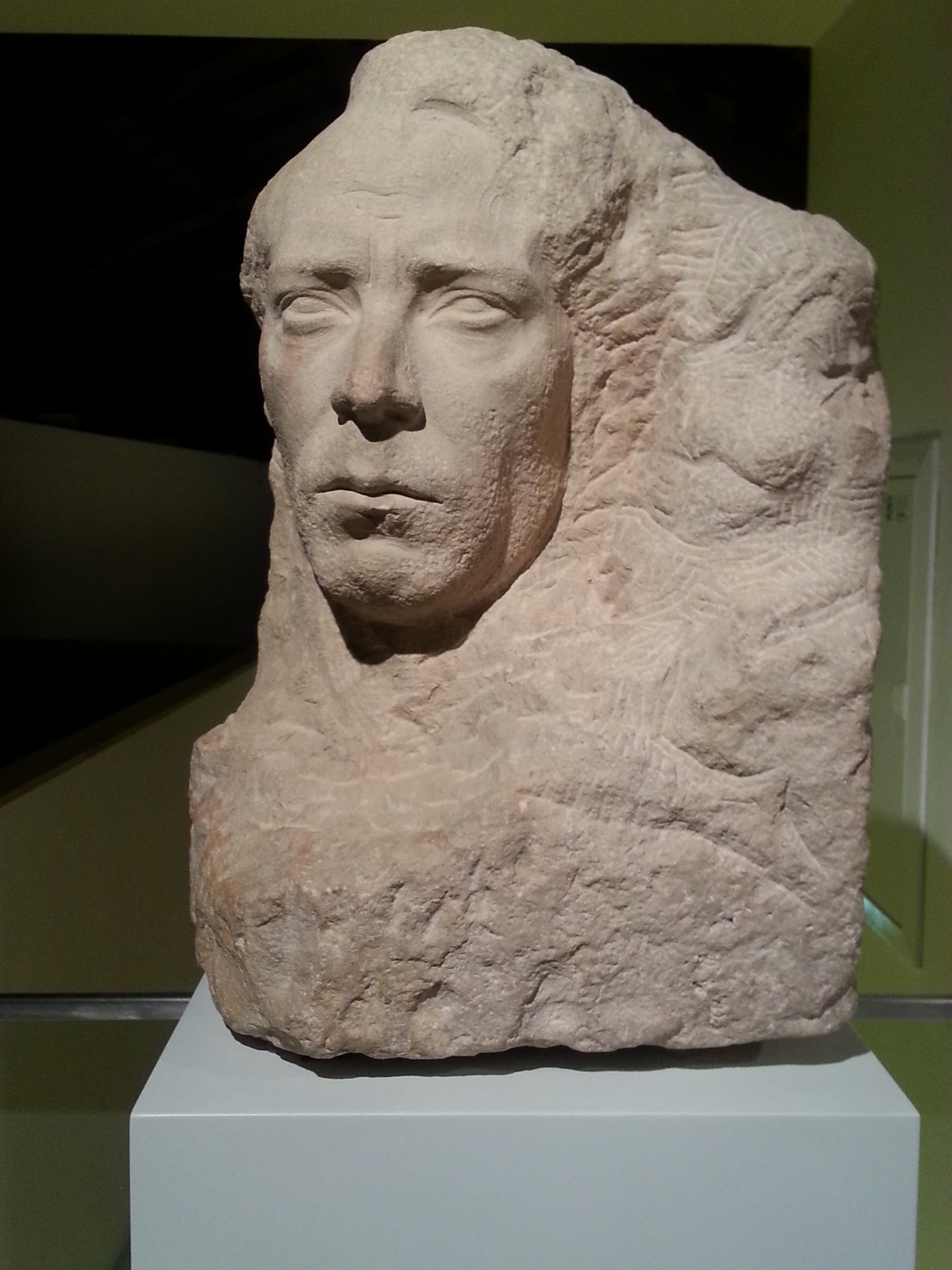 Self portrait of Emiliano Barral in stone of Sepulveda (size direct); 42.5 × 30 × 20 cm; Museum of Segovia (col. family Barral); CA. 1933-34